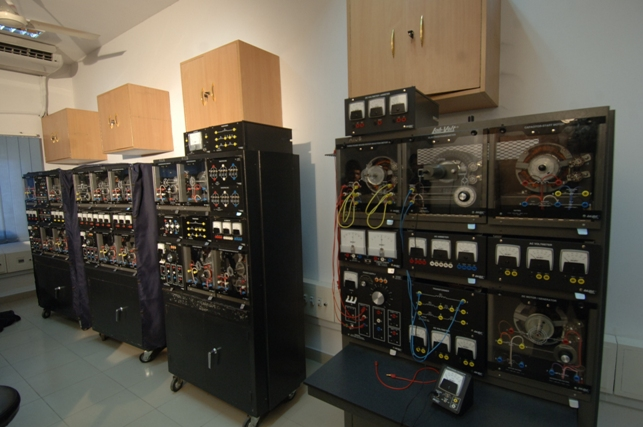 AIUB LabDate 5 December 2008Source Own workAuthor OFarMash